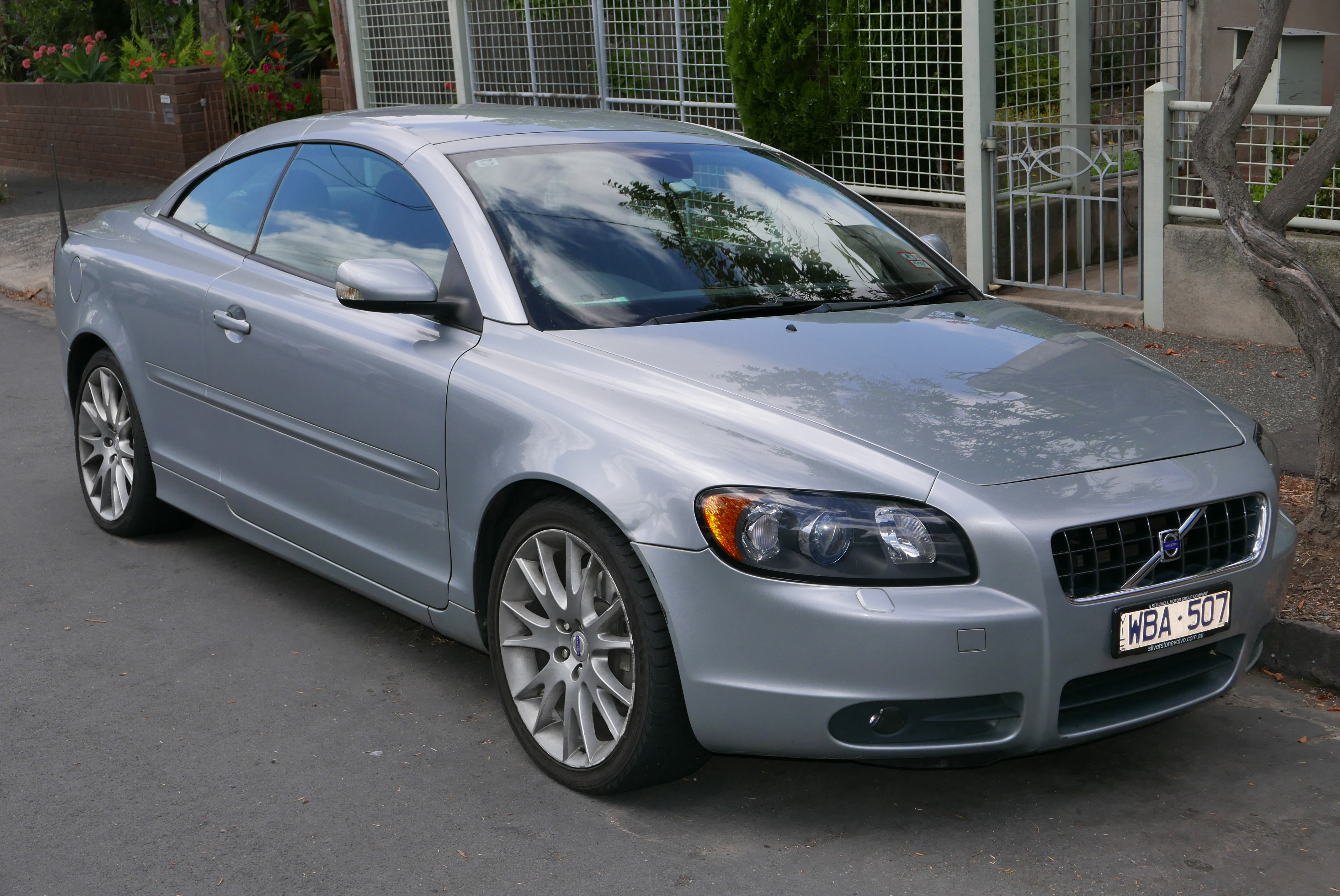 2007 Volvo C70 (MY07) T5 convertible. Photographed in Brunswick, Victoria, Australia. Vehicle registration enquiry resultsJurisdictionVictoriaRegistrationWBA507Chassis codeYV1MC68597J027219Engine code4161153Compliance date2007-07Year of manufacture2007